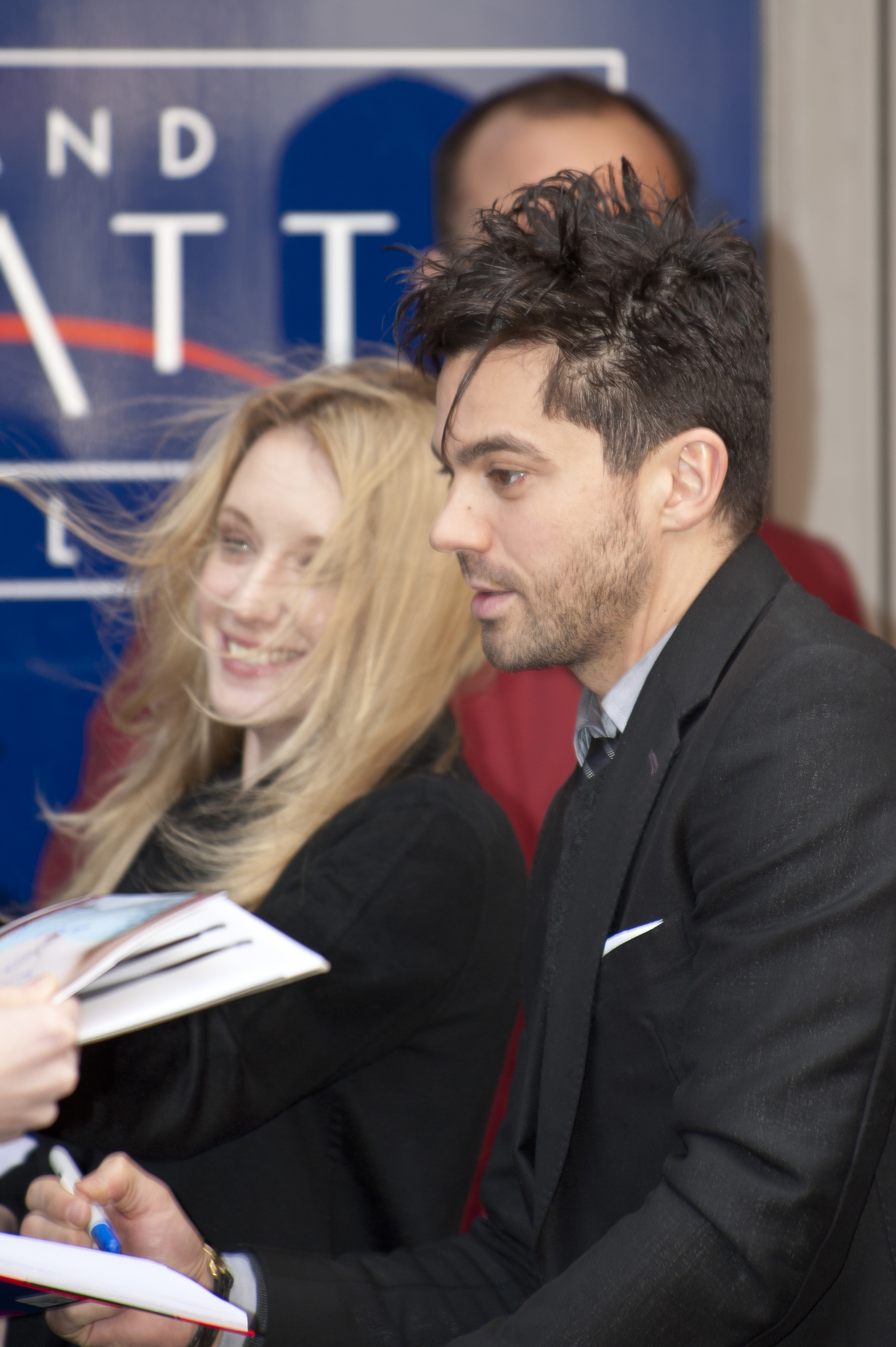 English actor Dominic Cooper and french actress Ludivine Sagnier arriving at the press conference of their movie The Devil's Double at the Berlin Film Festival 2011